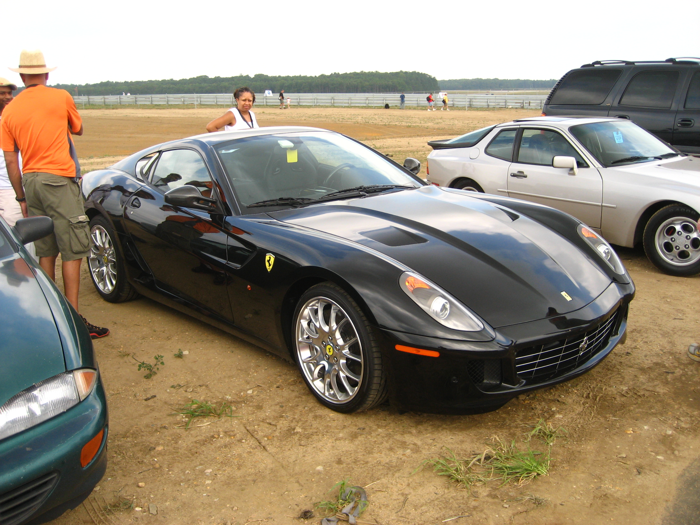 A Ferrari 599 GTB Fiorano